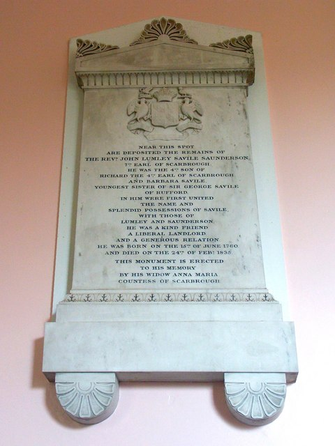 Interior of the Church of St Helen, Saxby Memorials in the church are to the 6th, 7th and 8th Earls of Scarborough and the 7th Countess. This one is to the 7th Earl, the Reverend John Lumley Saville Saunderson who was the son of the 4th Earl of Scarborough and Barbara Saville the youngest sister of Sir George Saville of Rufford.